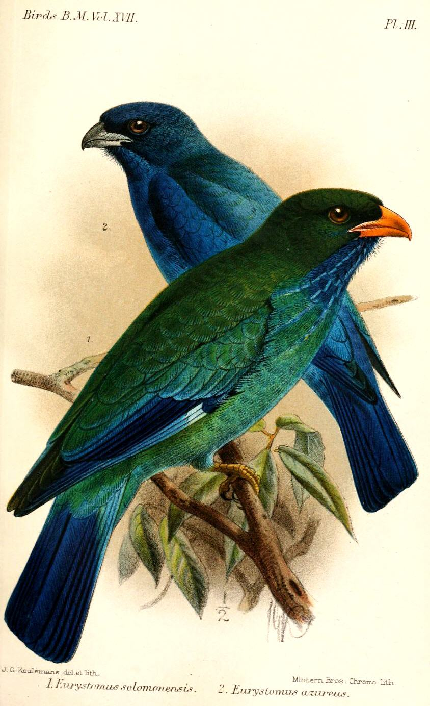 Eurystomus solomonensis = Eurystomus orientalis solomonensis Oriental Dollarbird ssp. (in front); and Eurystomus azureus Purple Dollarbird (behind)